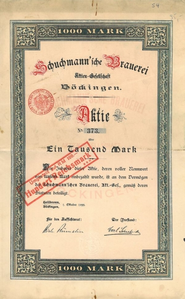 Heilbronn-Böckingen Aktie der Schuchmann'schen Brauerei von 1899.jpg